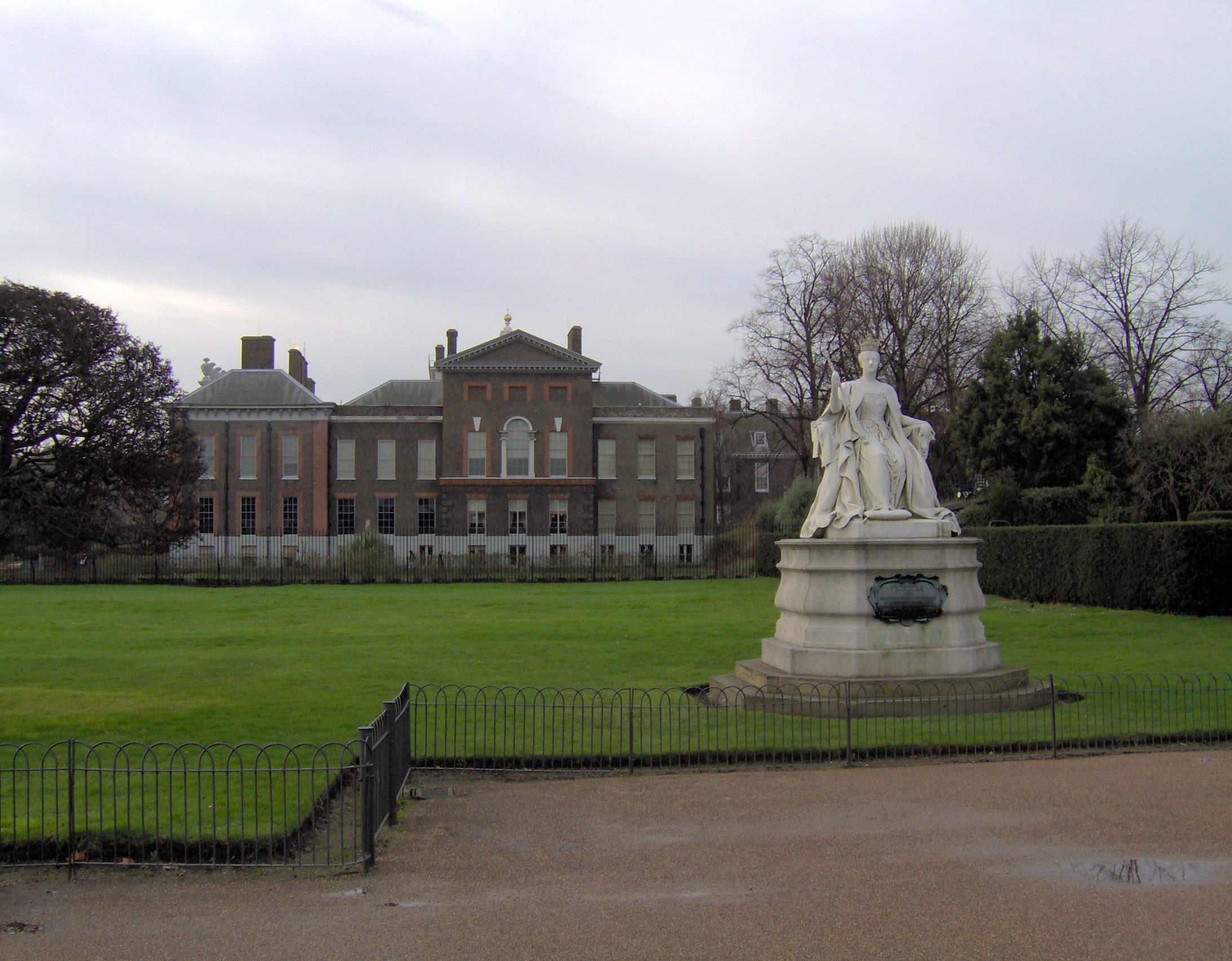 Kensington Palace and Queen Victoria statue, Kensington Gardens, Westminster, London